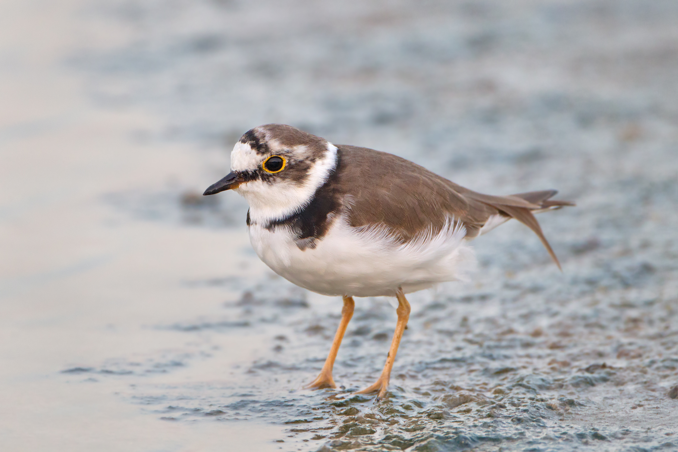 Little Ringed Plover (Charadrius dubius), Laem Pak Bia, Petchaburi, Thailand